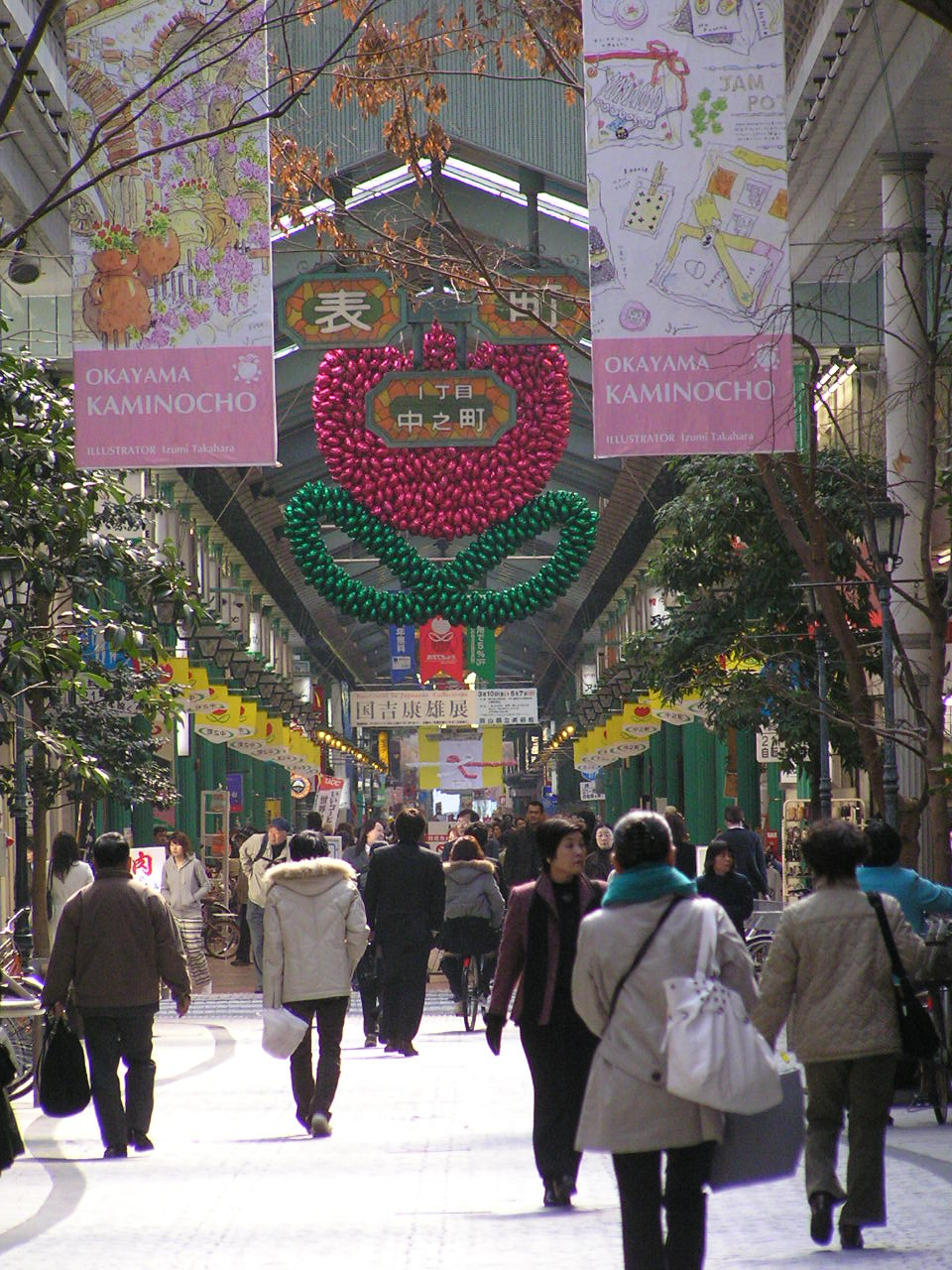 omote-chou shopping street